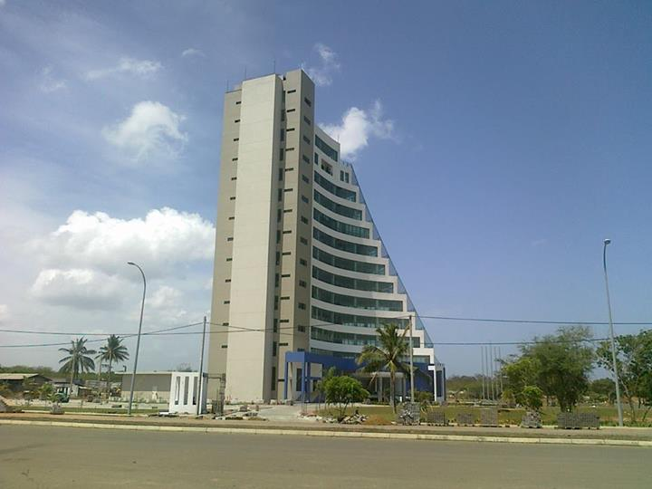 හම්බන්තොට